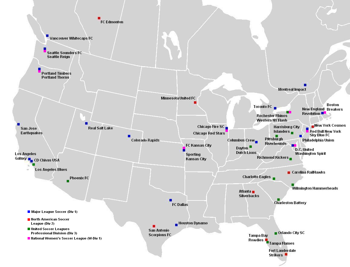 Professional soccer clubs of the United States and Canada, year 2013. Not pictured: Puerto Rico Islanders, taking a one-year hiatus, and Antigua Barracuda, who are playing all their games this year on the road.